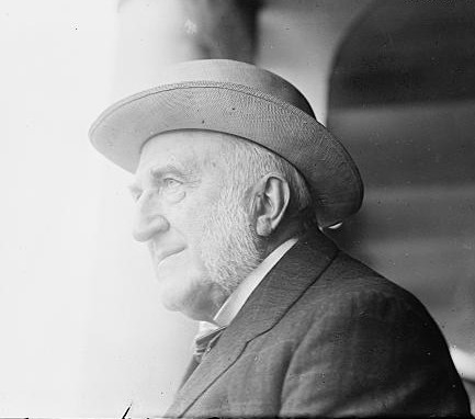 Chauncey Depew, a United States Senator from New York.